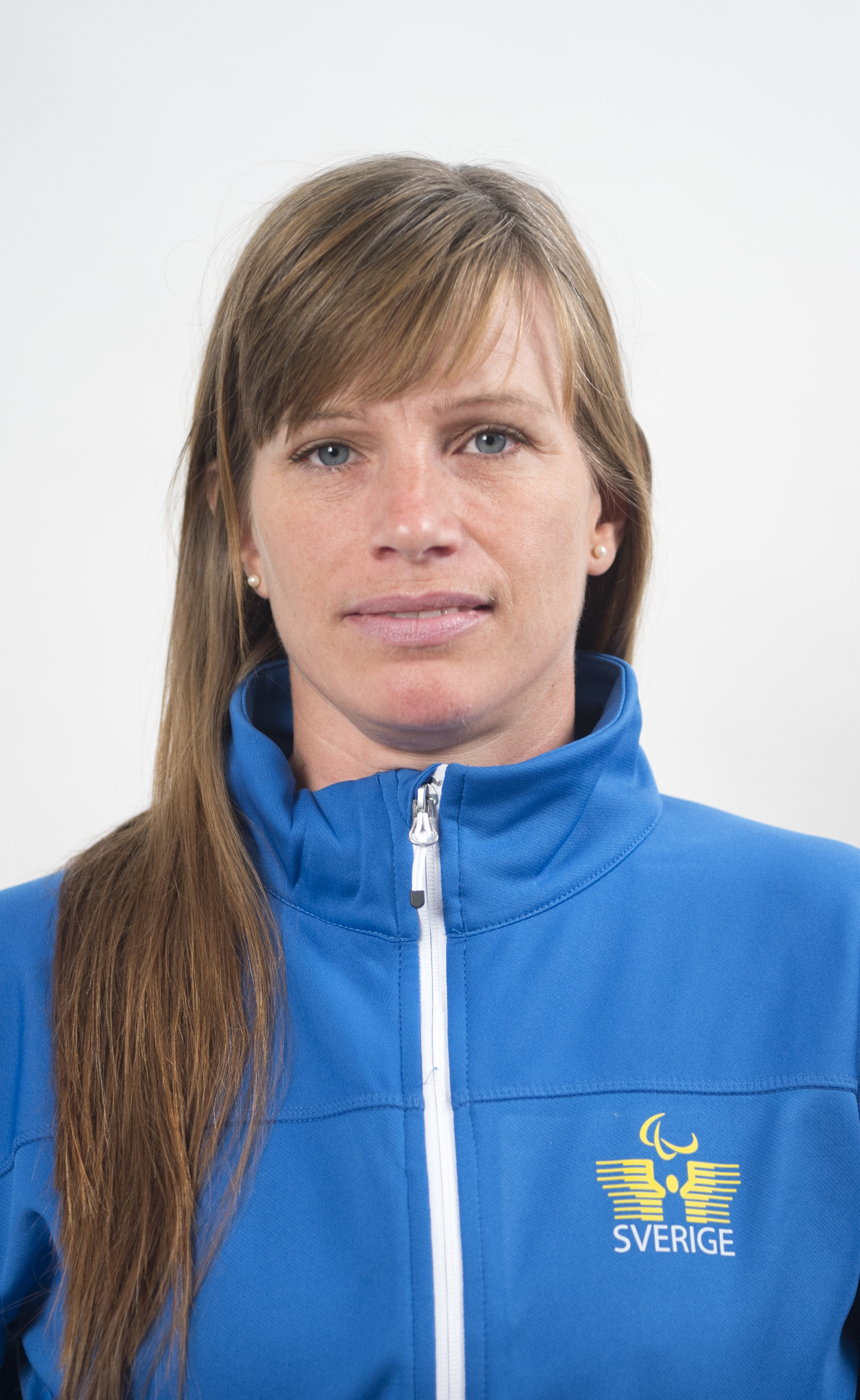 Swedish cross-country skier and Paralympian Helene Ripa. She competes in the LW2 class and won gold in the 15 km race at the 2014 Winter Paralympics in Sochi. She had previously competed in 1992 Summer Paralympics as a swimmer.